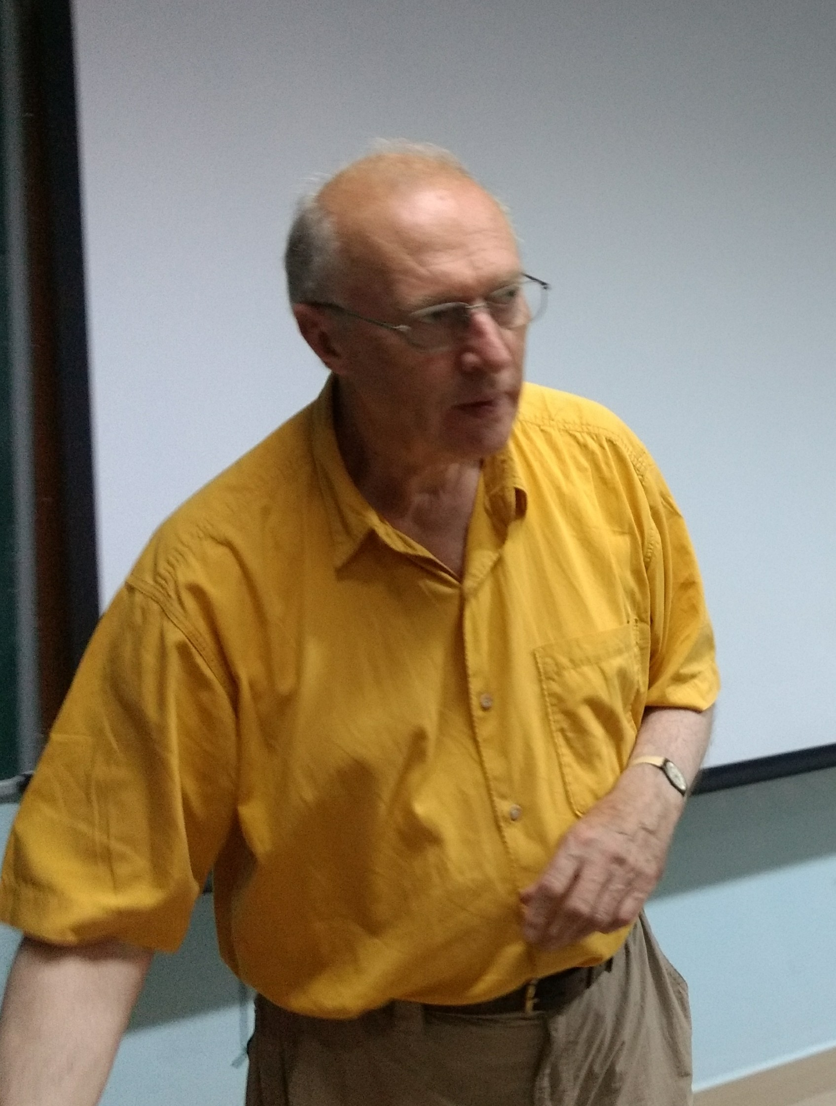 Prof. Malcolm Burrows at a talk in the department of Entomology, University of Agricultural Sciences, Bangalore